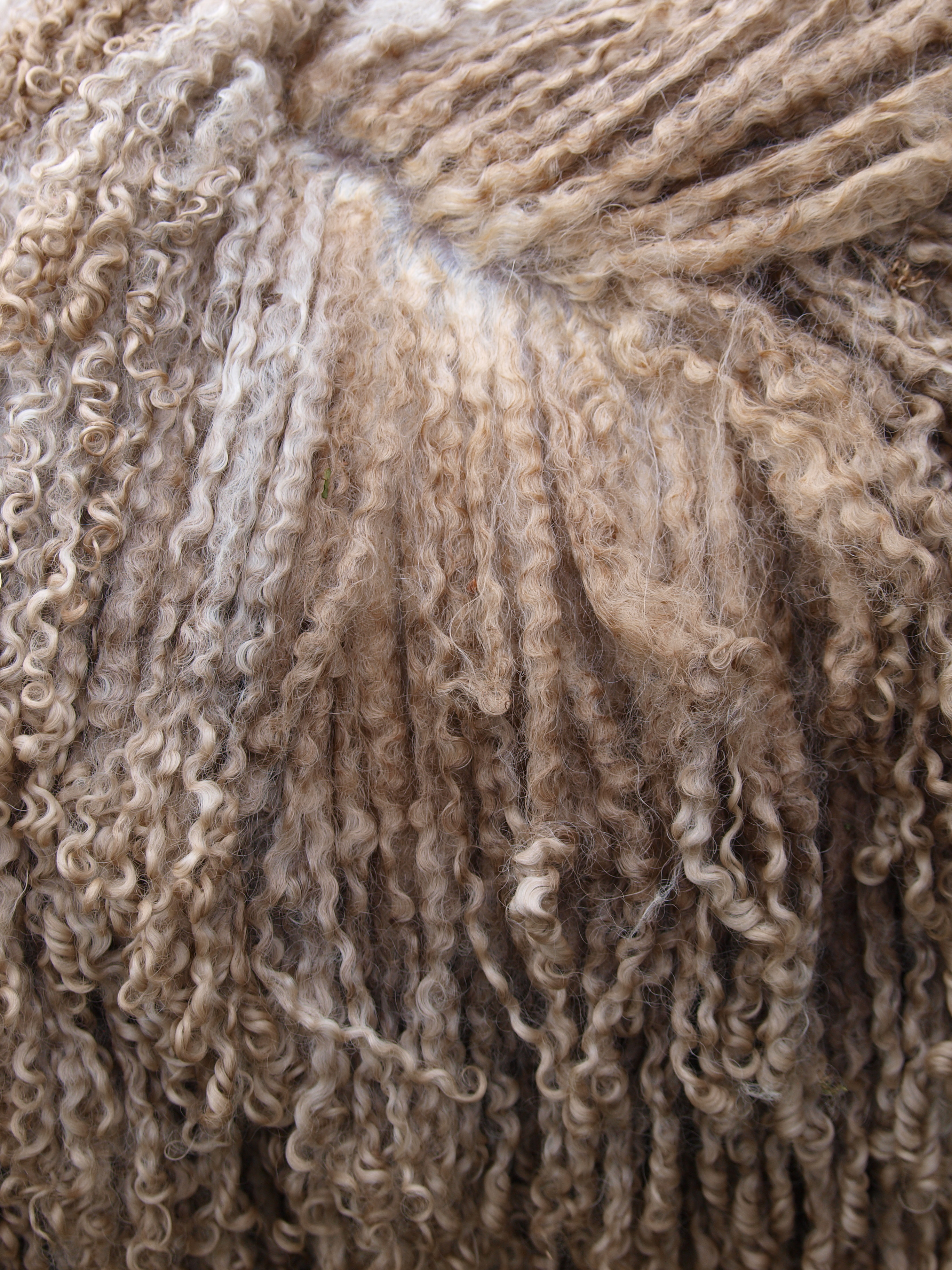 Wool of a white Wensleydale sheep